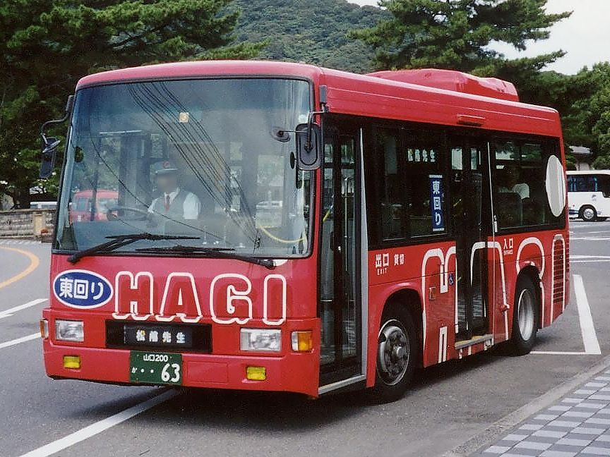 "Hagi Junkan Ma-ru bus", Hagi City community bus. Company:Bocho Kotsu Car license:山口200か・・63 Belongs to:Hagi depot Chassis manufacturer:Hino Motors Coachbuilder:Hino Body Place:at Shoin Shrine, Hagi City, Yamaguchi, Japan Scanned from negative color print